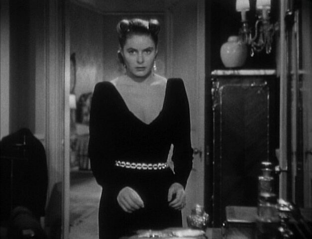 This screenshot shows Ingrid Bergman retrieving the keys.